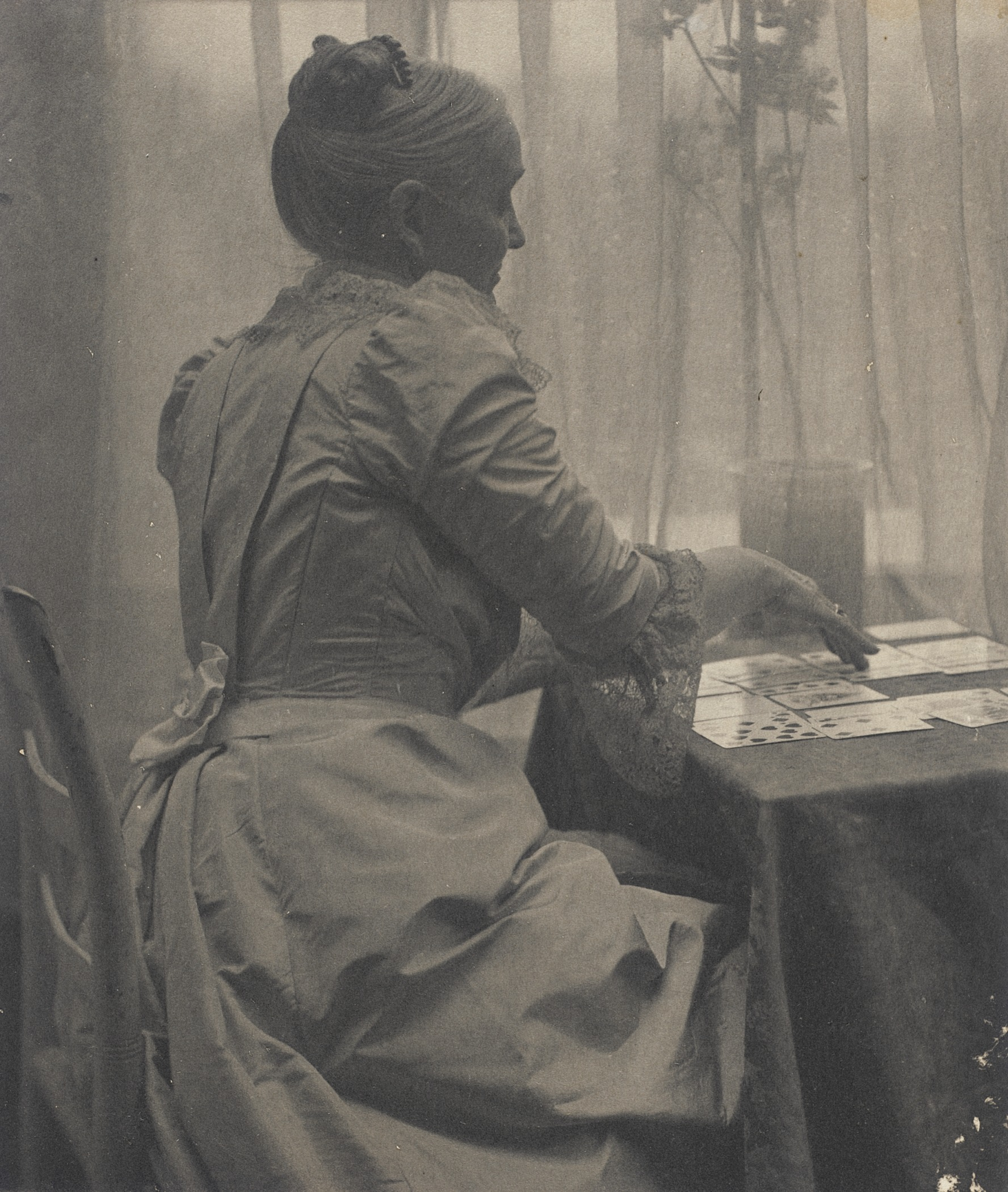 United States, circa 1910 Descriptive: (Self-portrait) Photographs Platinum-palladium print Anonymous gift in honor of Dr. Albert Cahn and in memory of Mina Turner, granddaughter of Gertrude Käsebier (M.77.168.4) Photography